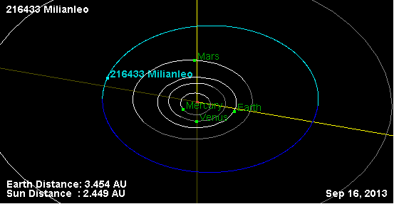 This shows the orbit of 216433 Milianleo. The positions are correct as of 9/16/2013